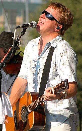 Cory Morrow at Austin Flugtag 2007